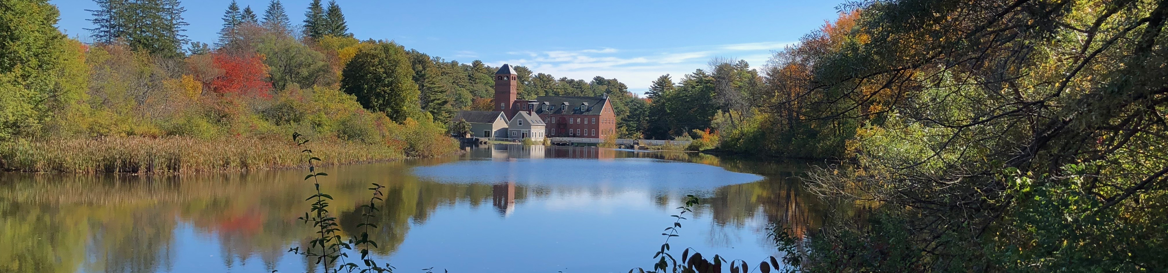 Sparhawk Mill in Yarmouth, Maine